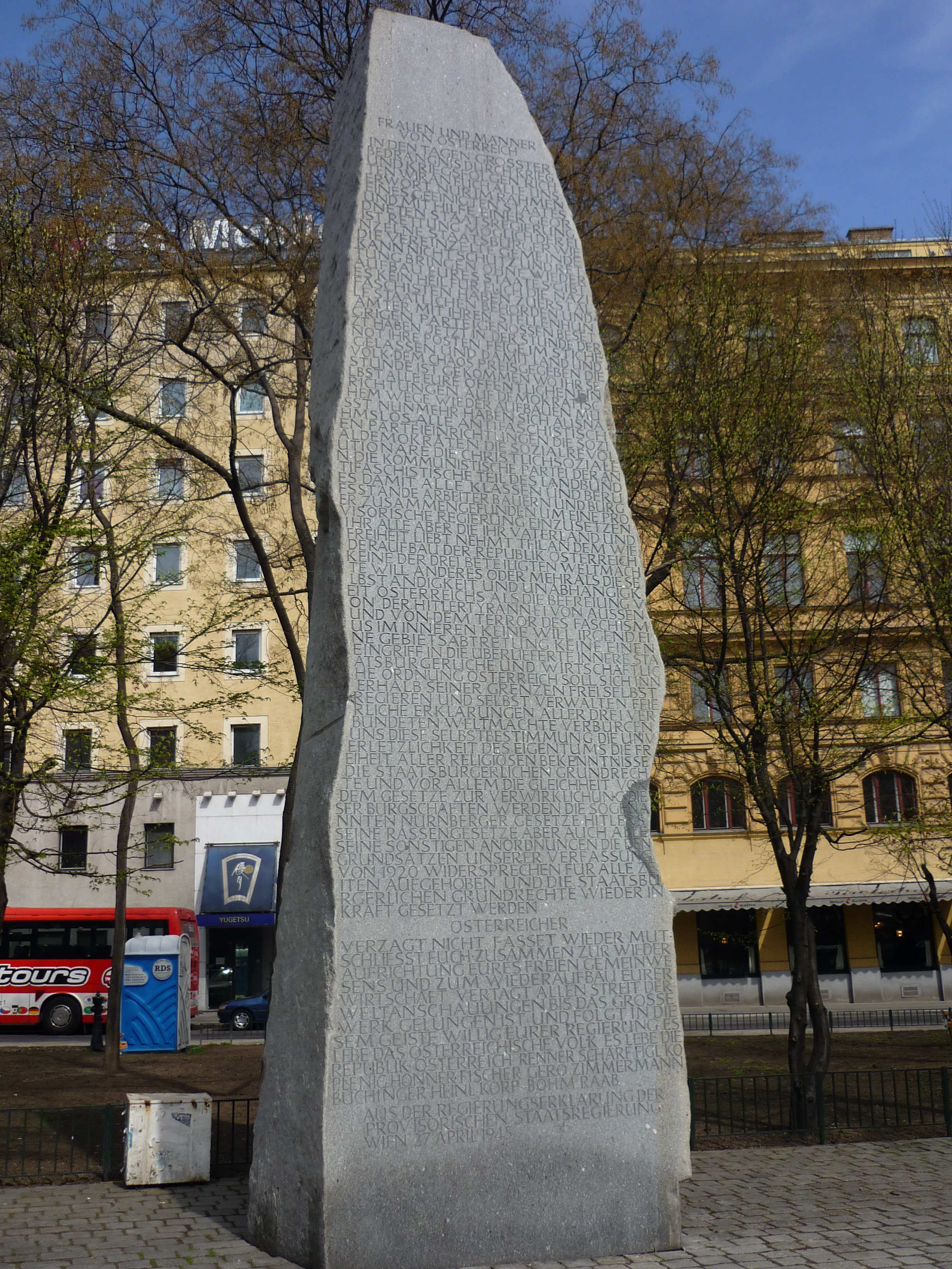 The ‘stone of the republic’ (German: Stein der Republik), part of the Monument against war and fascism in Vienna.